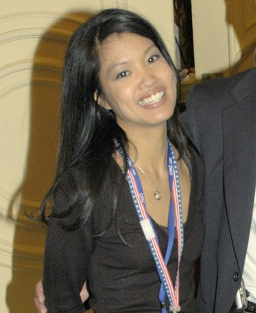 Don Irvine with Award winner Michelle Malkin at the Omni Shoreham Hotel on March 1st, 2007